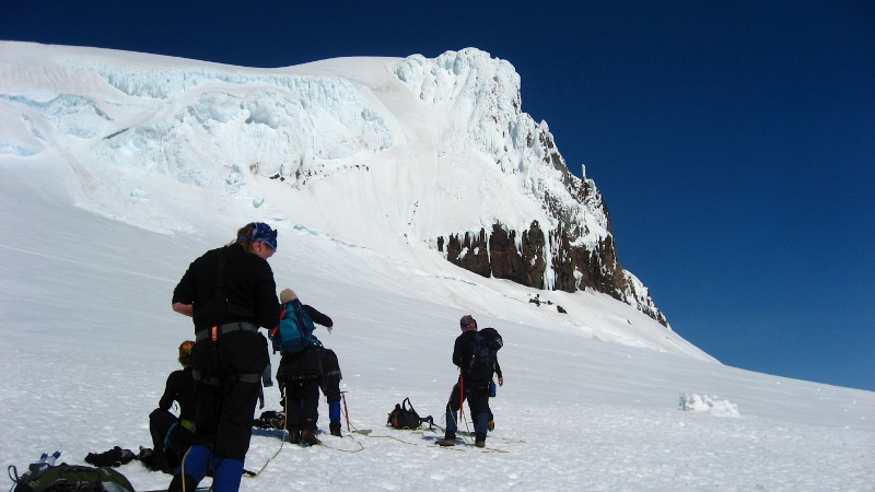 Hvannadalshnjúkur is a mountain peak near Skaftafell, southeast Iceland. At 2110 m it is Iceland's highest peak, rising 2000 m above its surrounding area.